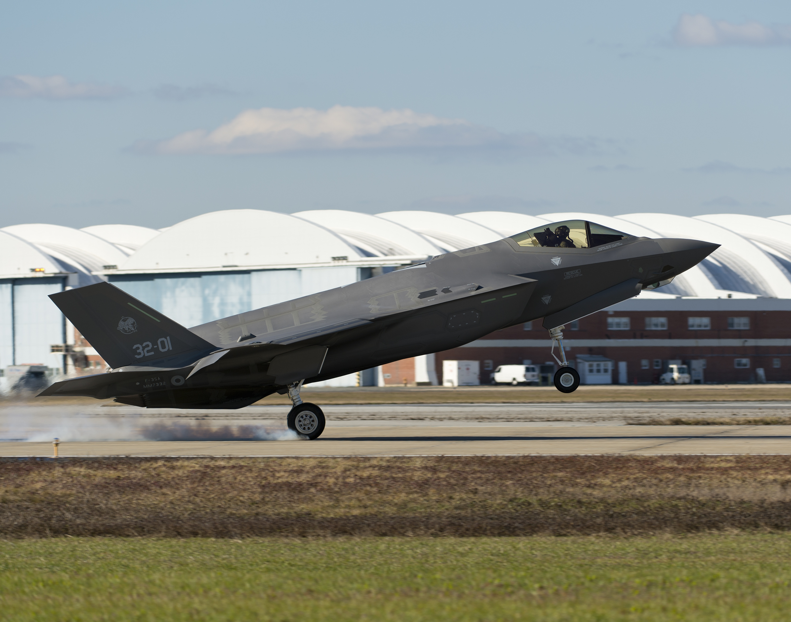 160205-O-ZZ999-907 NAS Patuxent River (February 5, 2016) An Italian Air Force (Aeronautica Militare) F-35A Lightning II aircraft made aviation history as it completed the very first F-35 trans-Atlantic Ocean crossing, arriving at Naval Air Station Patuxent River, Md., from Cameri Air Base, Italy, on Feb. 5 at 2:24 p.m. EST. (U.S. Navy photo courtesy Andy Wolfe/Released)